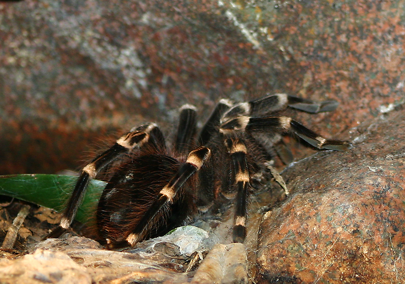 Brazilian whiteknee tarantula (Acanthoscurria geniculata), Randers Regnskov, Denmark